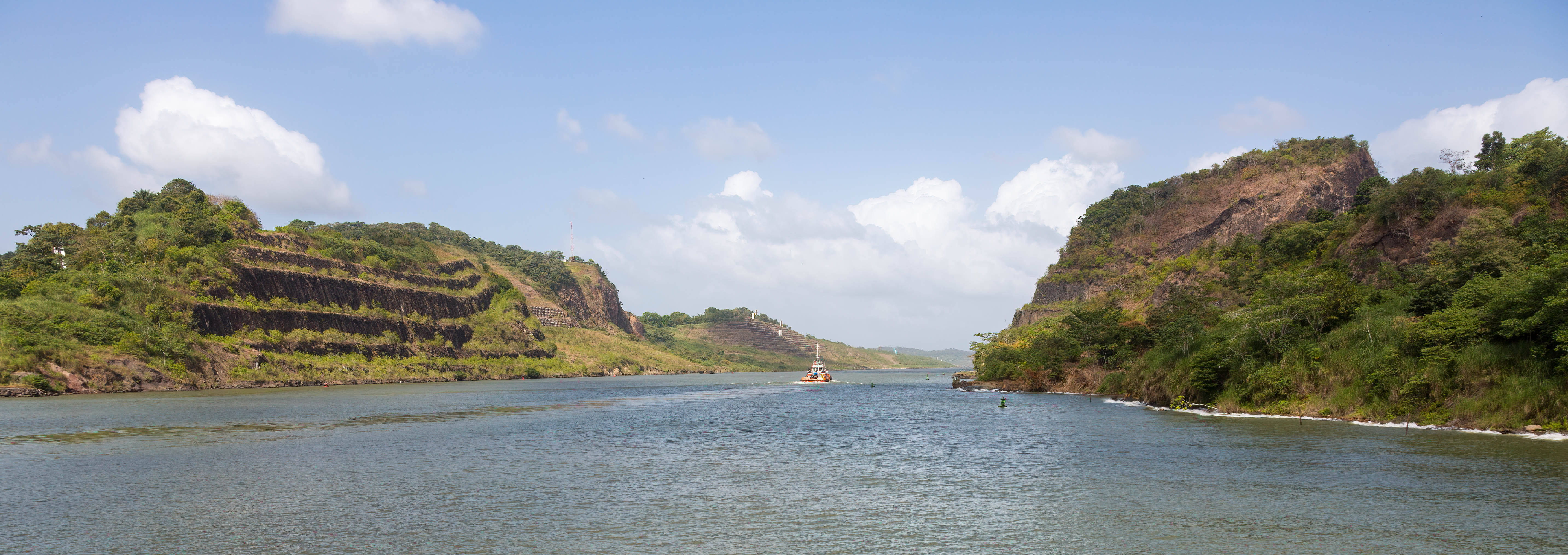 The Culebra Cut. An artificial valley along the Pacific Ocean to Gatun Lake (ahead) and eventually the Caribbean Sea.. Water level here is 85 feet above sea level. Contractor's Hill is on the left and Gold Hill is on the right.